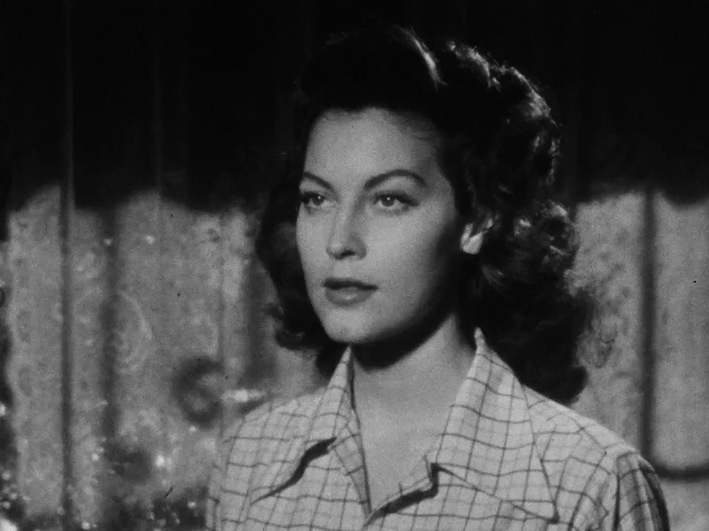 Screenshot of Ava Gardner from the trailer for the film The Killers.